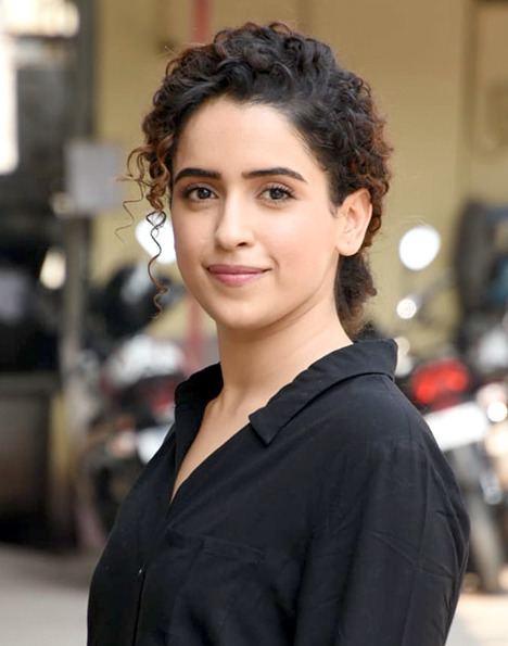 Sanya Malhotra spotted during an ad shoot in Mumbai